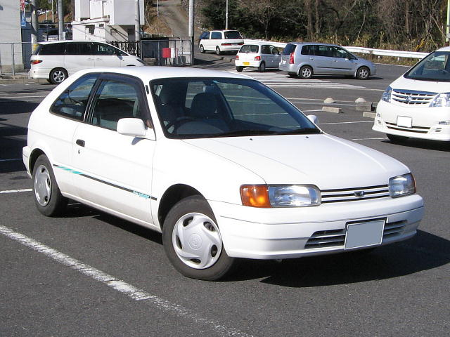 Toyota "Corolla II" (L50 / 4th generation) 1994/9-1997/12